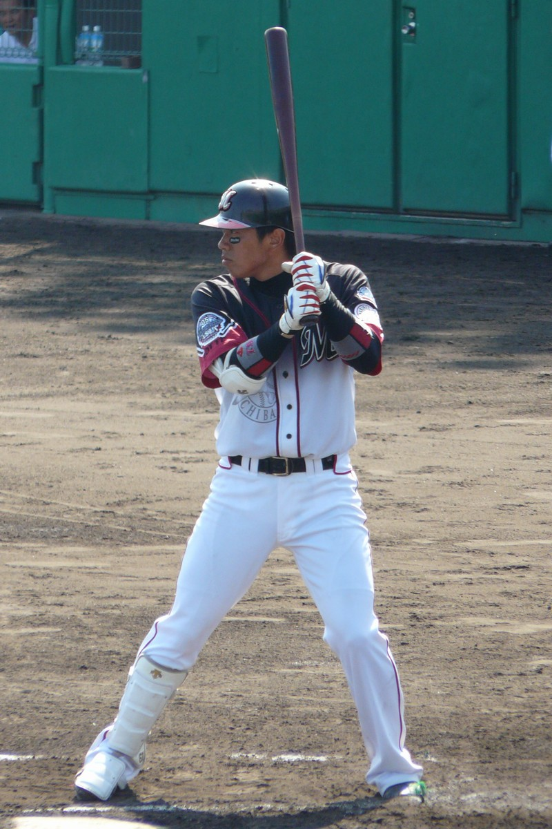 Katsuya-Kadonaka